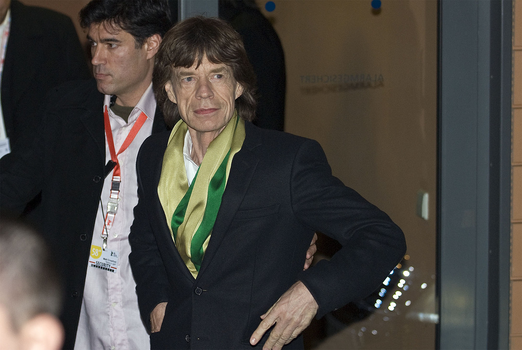 Mick Jagger, Opening of the 58th Berlin International Film Festival